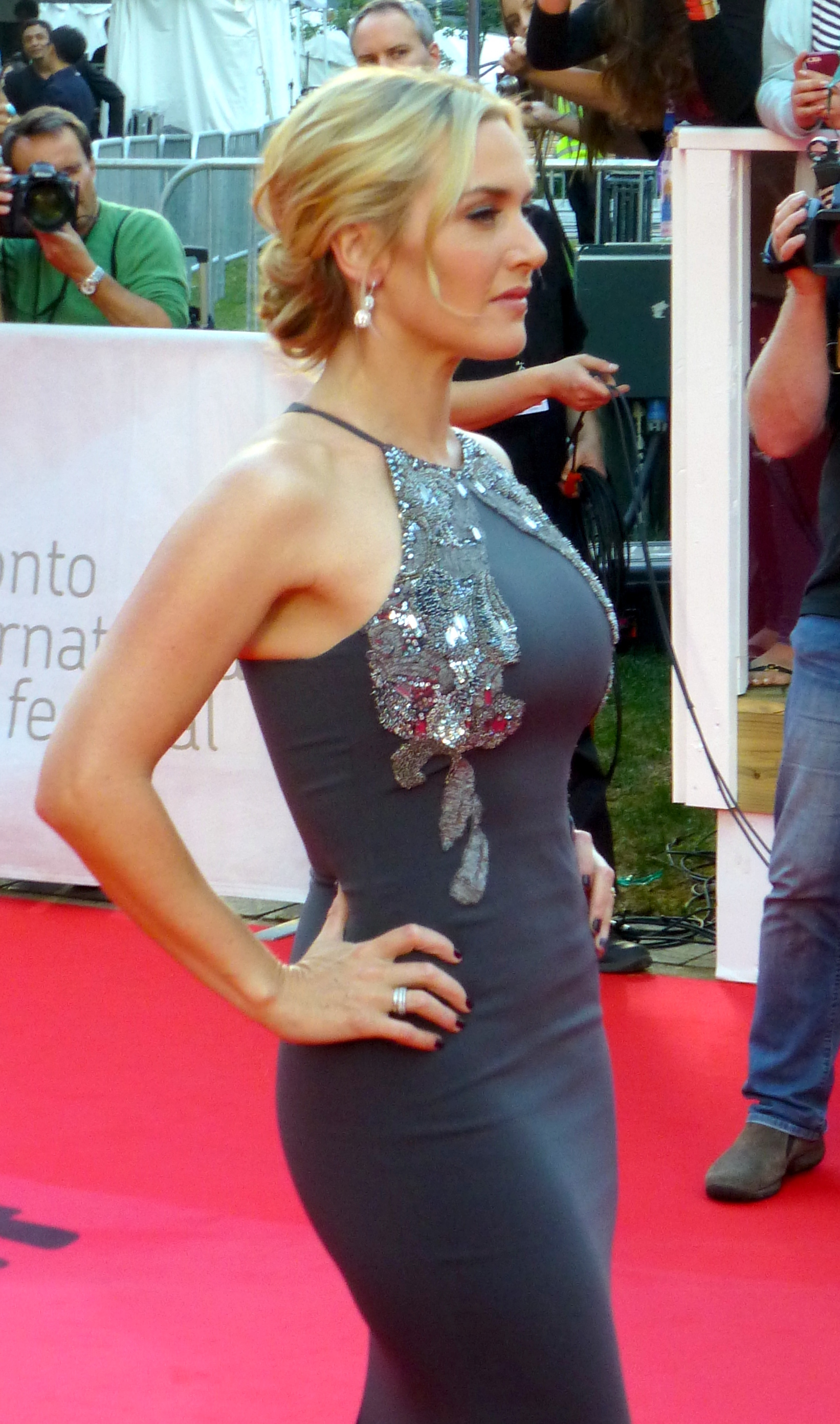 Kate Winslet at 2015 TIFF